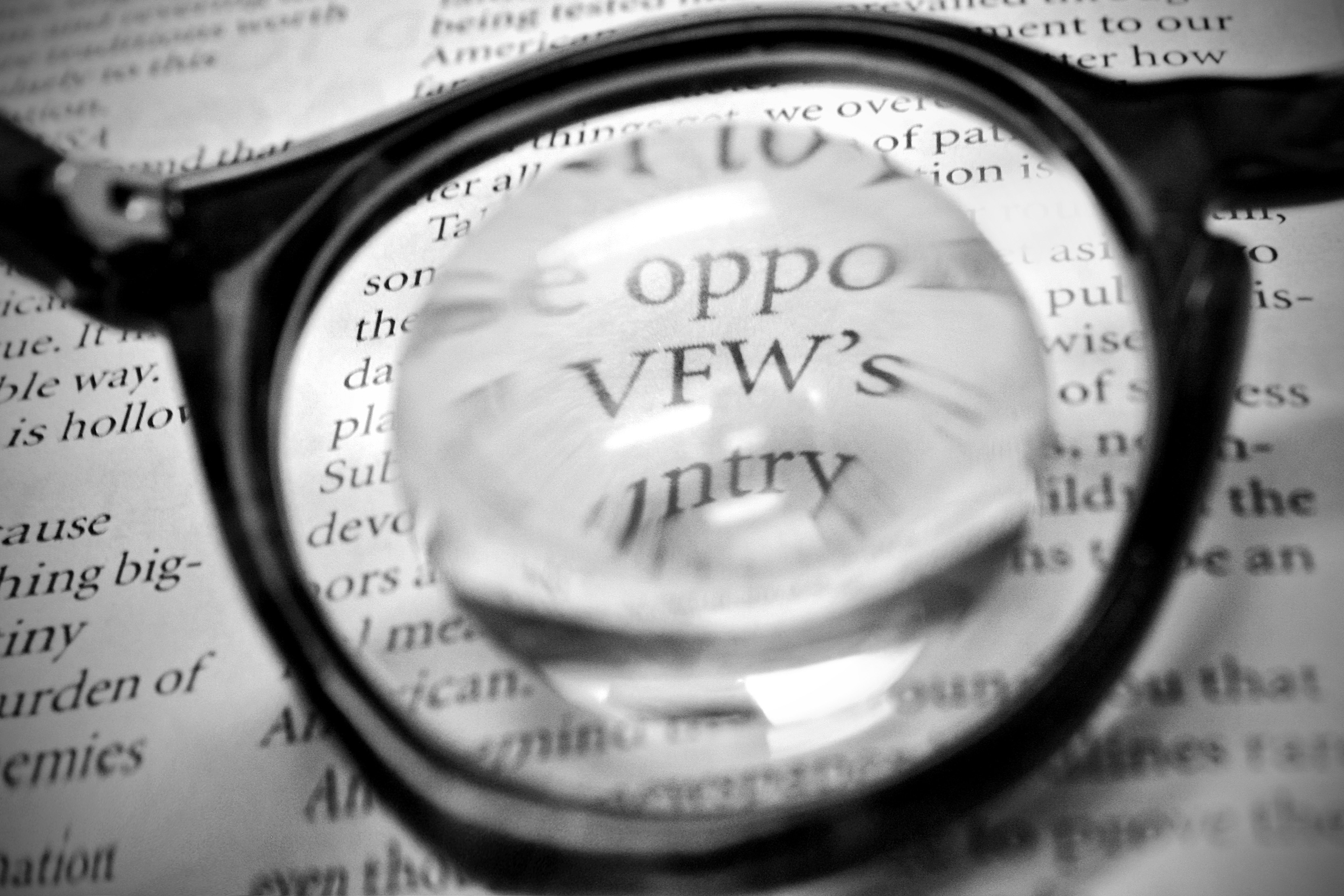 CHARLESTON, SC. (June 17, 2009) Bob Gore uses bifocals that provide a magnification factor of 10x to read text. Gore is a legally blind environmental specialist working at Naval Weapons Station, Charleston. (U.S. Navy photo by Machinist's Mate 3rd Class Juan Pinalez/Released)